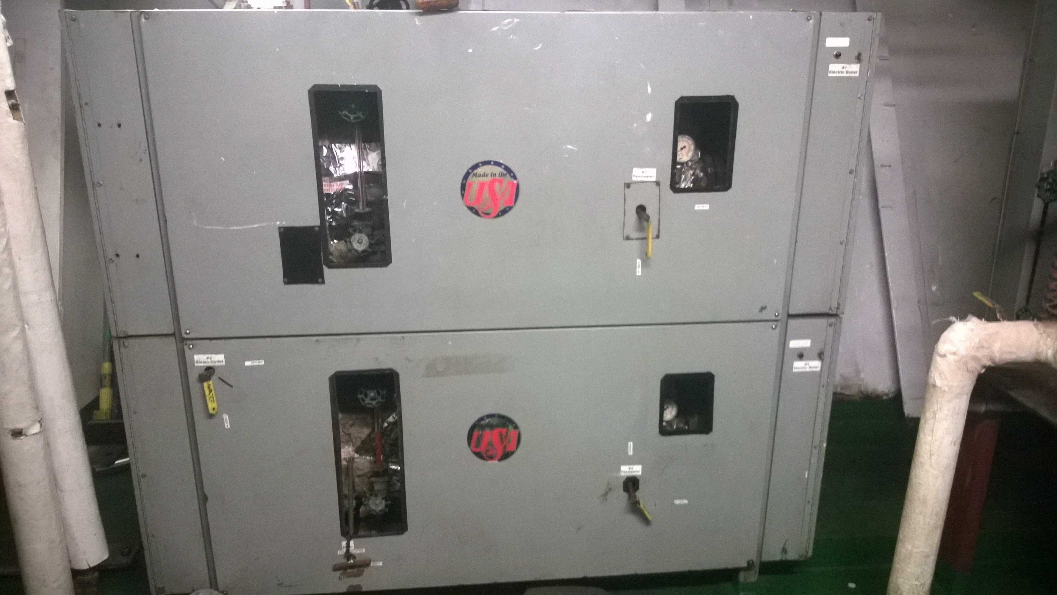 This is a photo taken by myself from the California Maritime Academy's ship, the Training Ship Golden Bear.